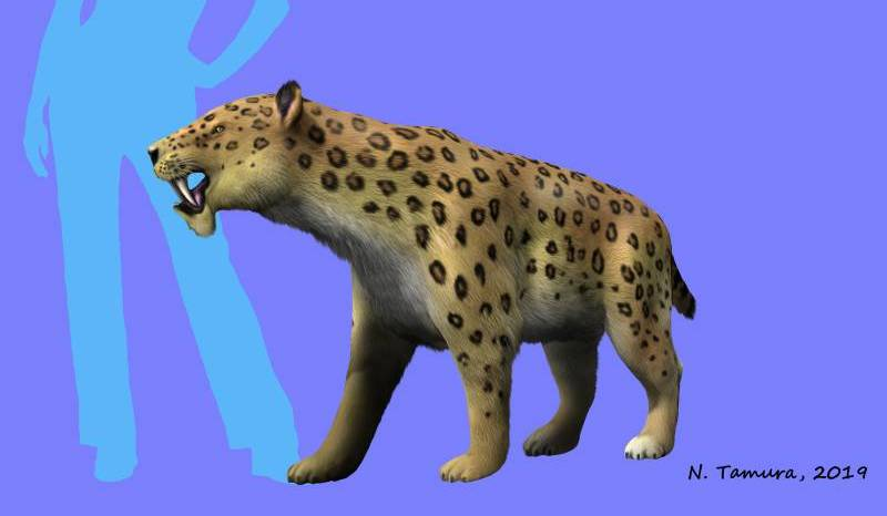 Life reconstruction of "Barbourofelis loveorum".